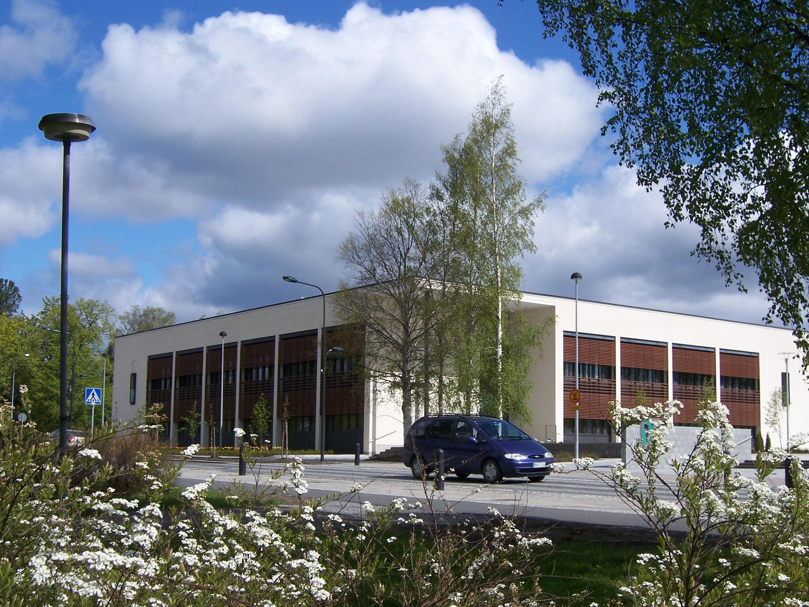 Ylöjärvi Town Hall, Ylöjärvi, Finland